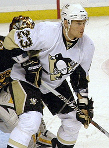 40, Tuuka Rask, G, BOS; 23, Alex Ponikarovsky, LW, PIT -- No problem, I'm sure Tuukka can see just fine. Pittsburgh Penguins at (vs) Boston Bruins, TD Banknorth Garden (Boston Garden), March 18, 2010